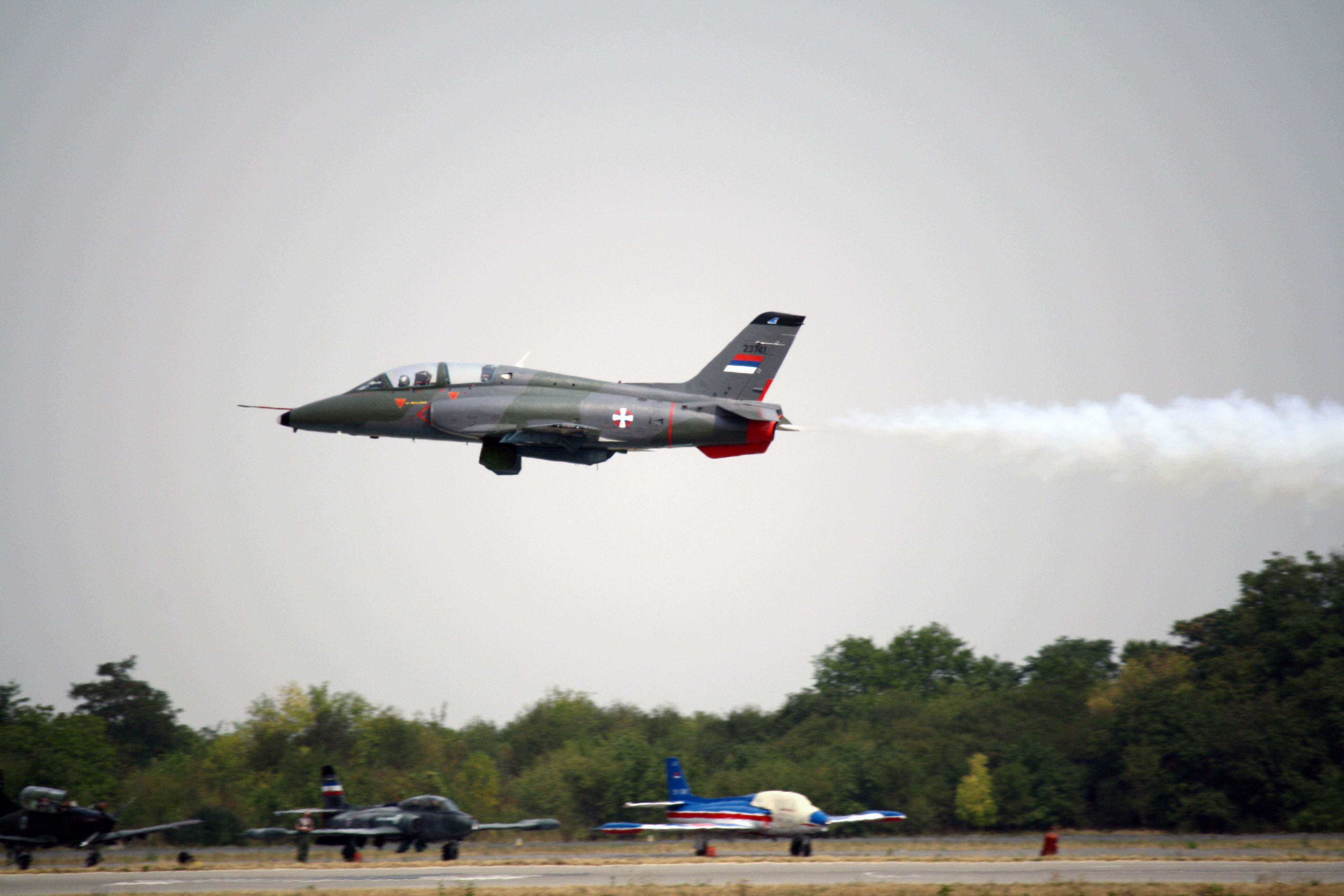 G-4 Super Galeb trainer/light attack jet aircraft No.23741 of 252. Training Squadron, 204th Air Brigade of Serbian Air Force at Batajnica Air Show 2012 held to celebrate 100 years of Serbian Air Force.